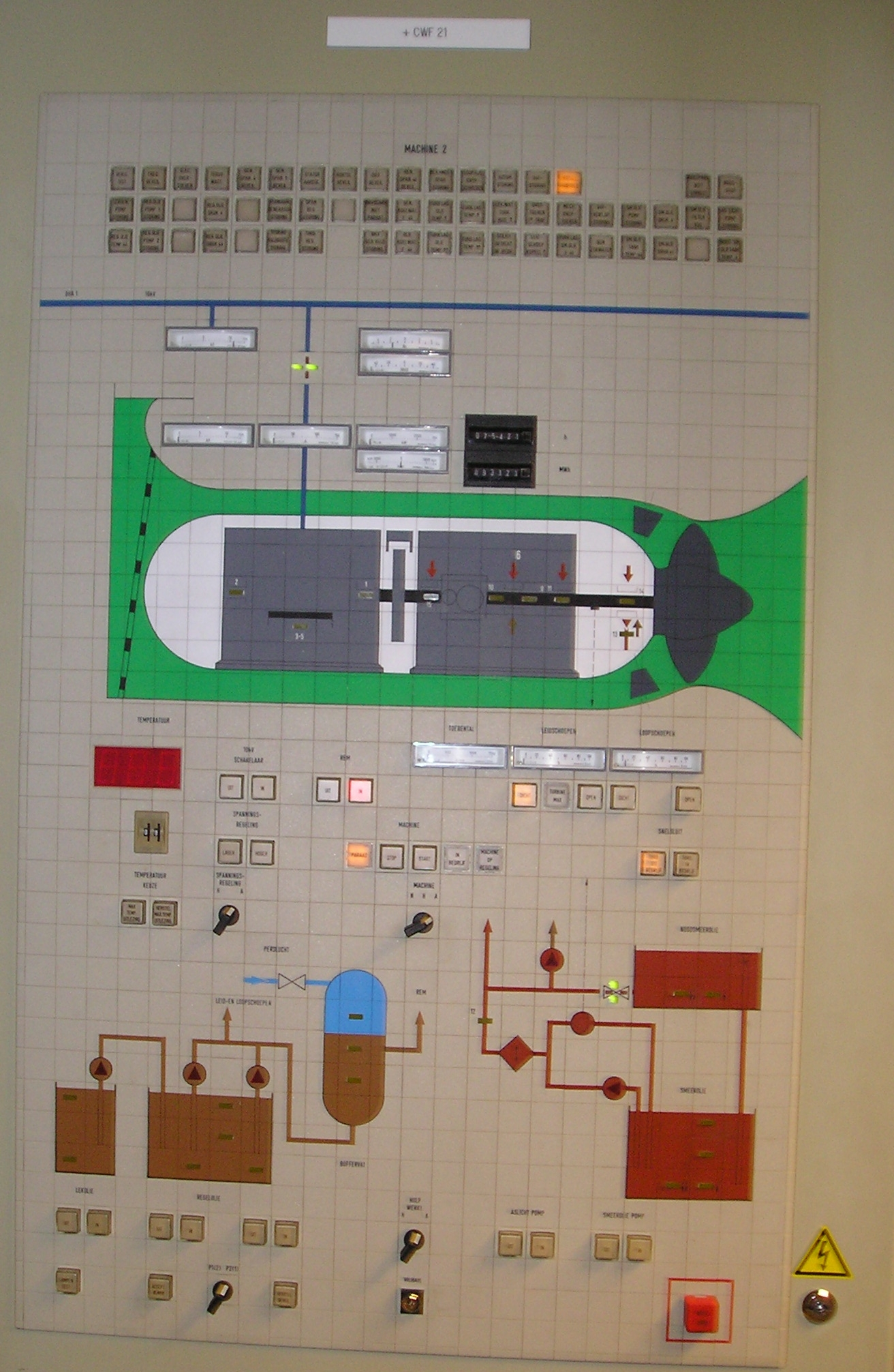 Hydrocentrale, control panel (Amerongen)